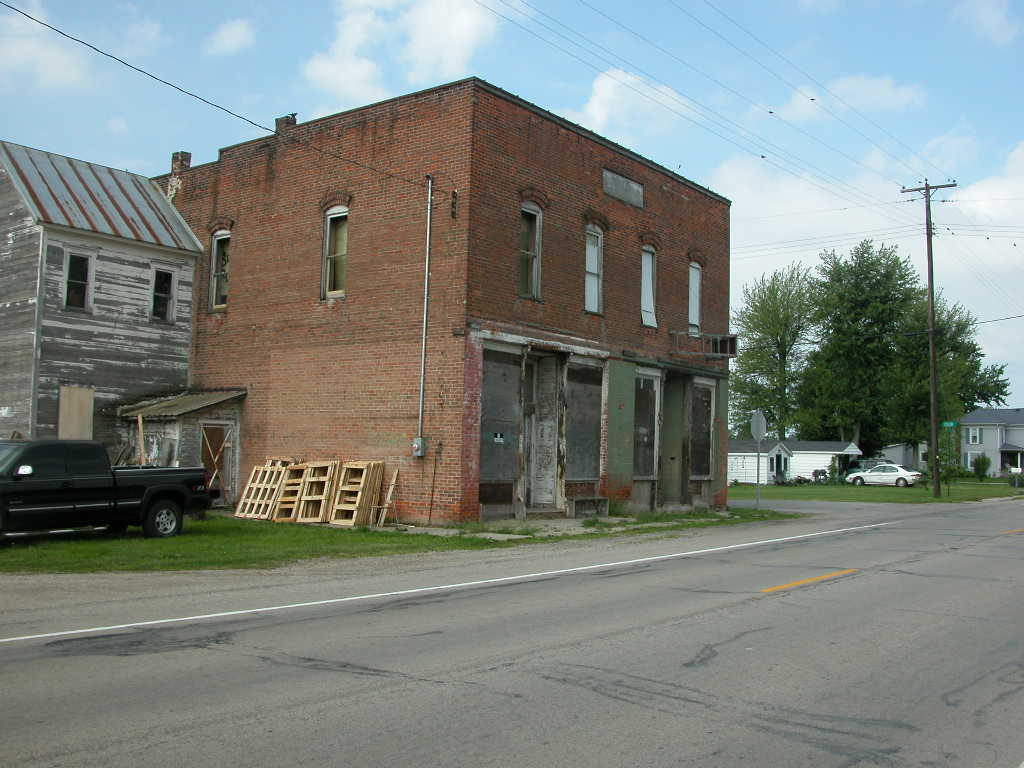 I took this photo in Roll, Indiana, during May 2010.